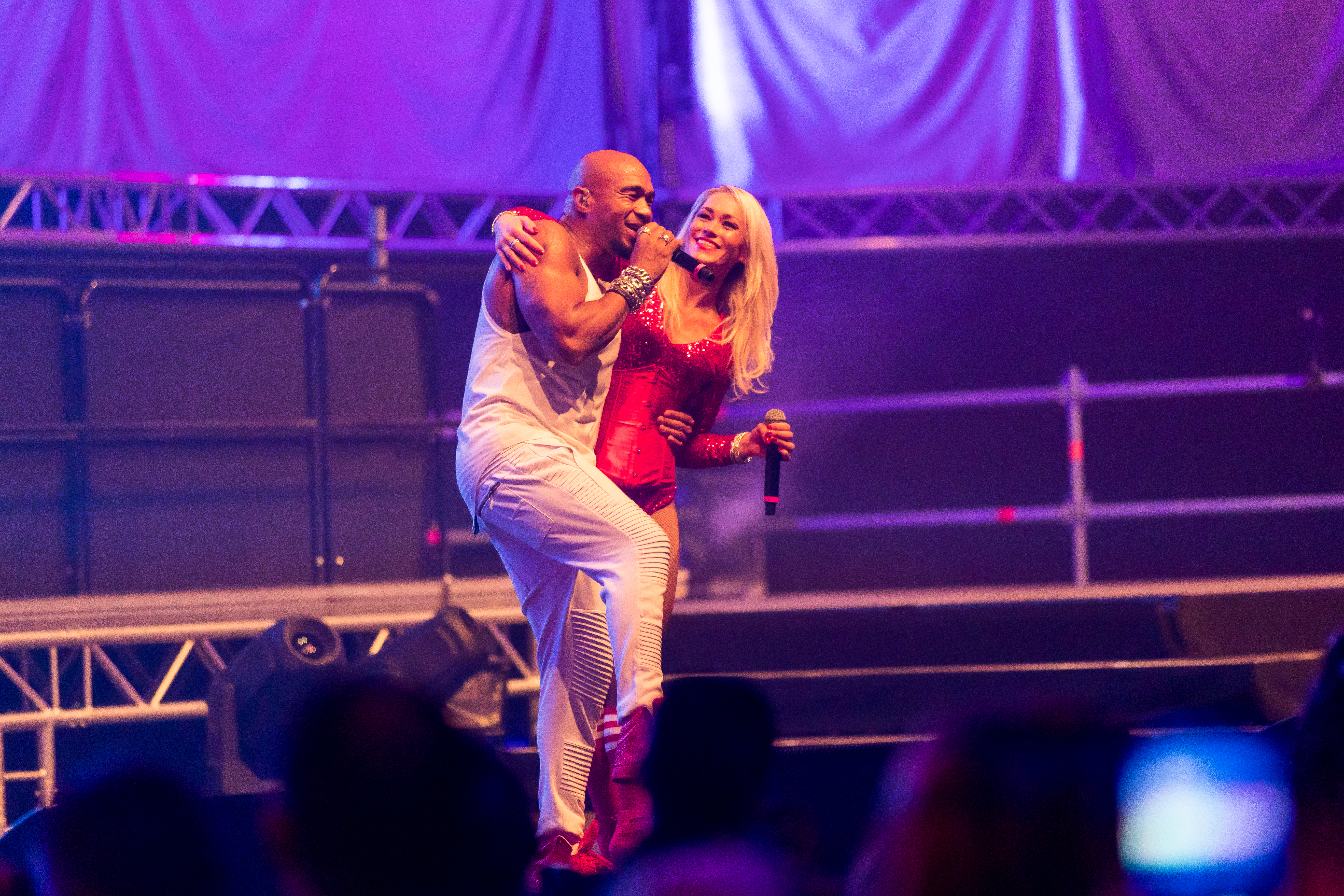 Twenty 4 Seven during Sunshine Live - 90er Live on Stage at Maimarkt Halle, Mannheim, Baden Württemberg, Germany on 2016-11-26, Photo: Sven Mandel DJ Falk, E-Rotic, Twenty 4 Seven, Rednex, Vengaboys, Masterbox feat. Beatrix Delgado, 2 Brother on the 4th Floor, 2 Unlimited, Interactive, Charly Lownoise, Marusha